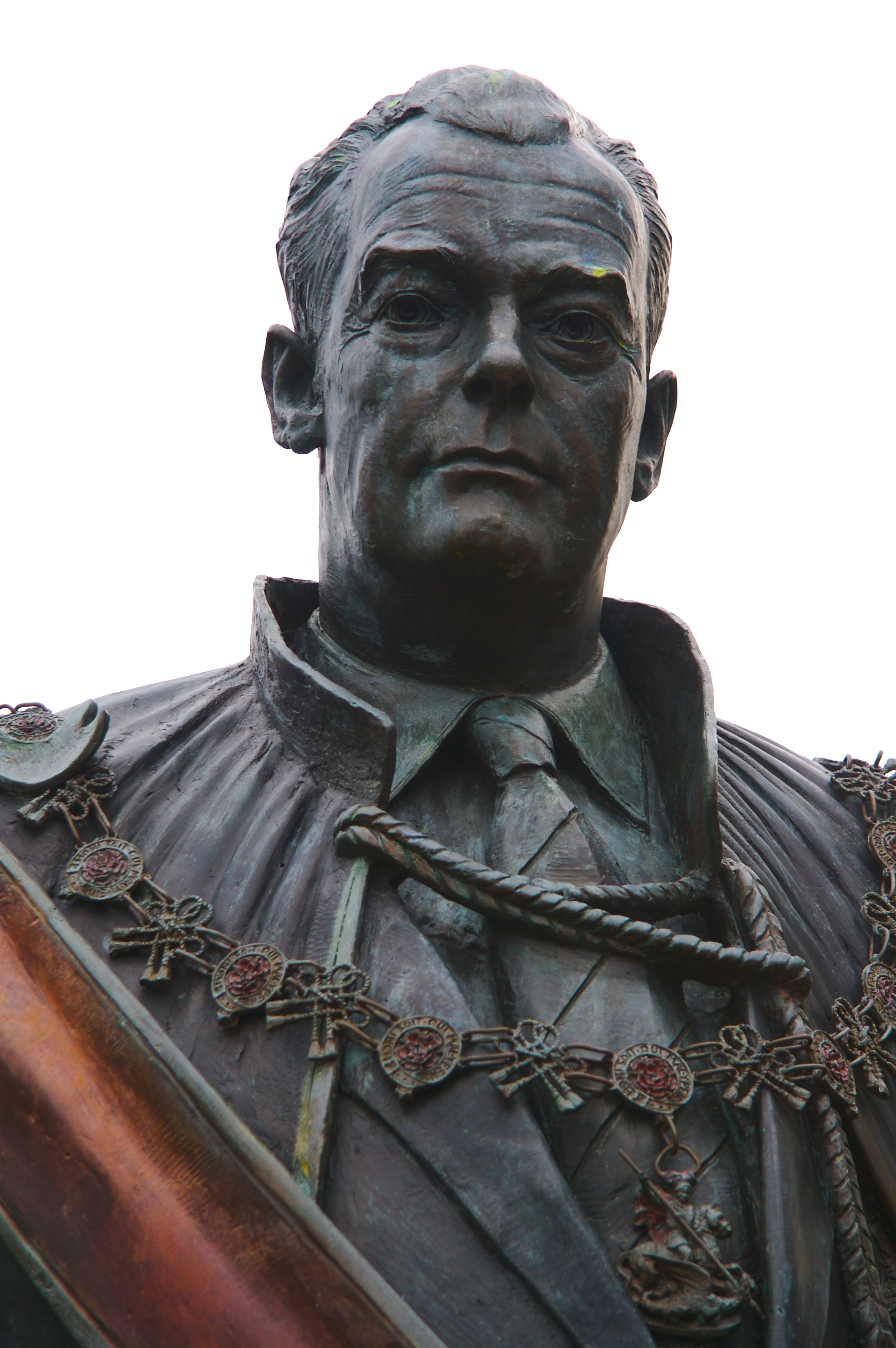 Portrait shot of Sir Keith Holyoake Statue outside State Services Commission Building, 100 Molesworth Street, Wellington, New Zealand. Location: 41°16' 32.21" S, 174°46' 40.70" E. Holyoake is depicted in the vestments of a Knight of the Order of the Garter; the statue's base bears his name, his official awards and a brief synopsis.